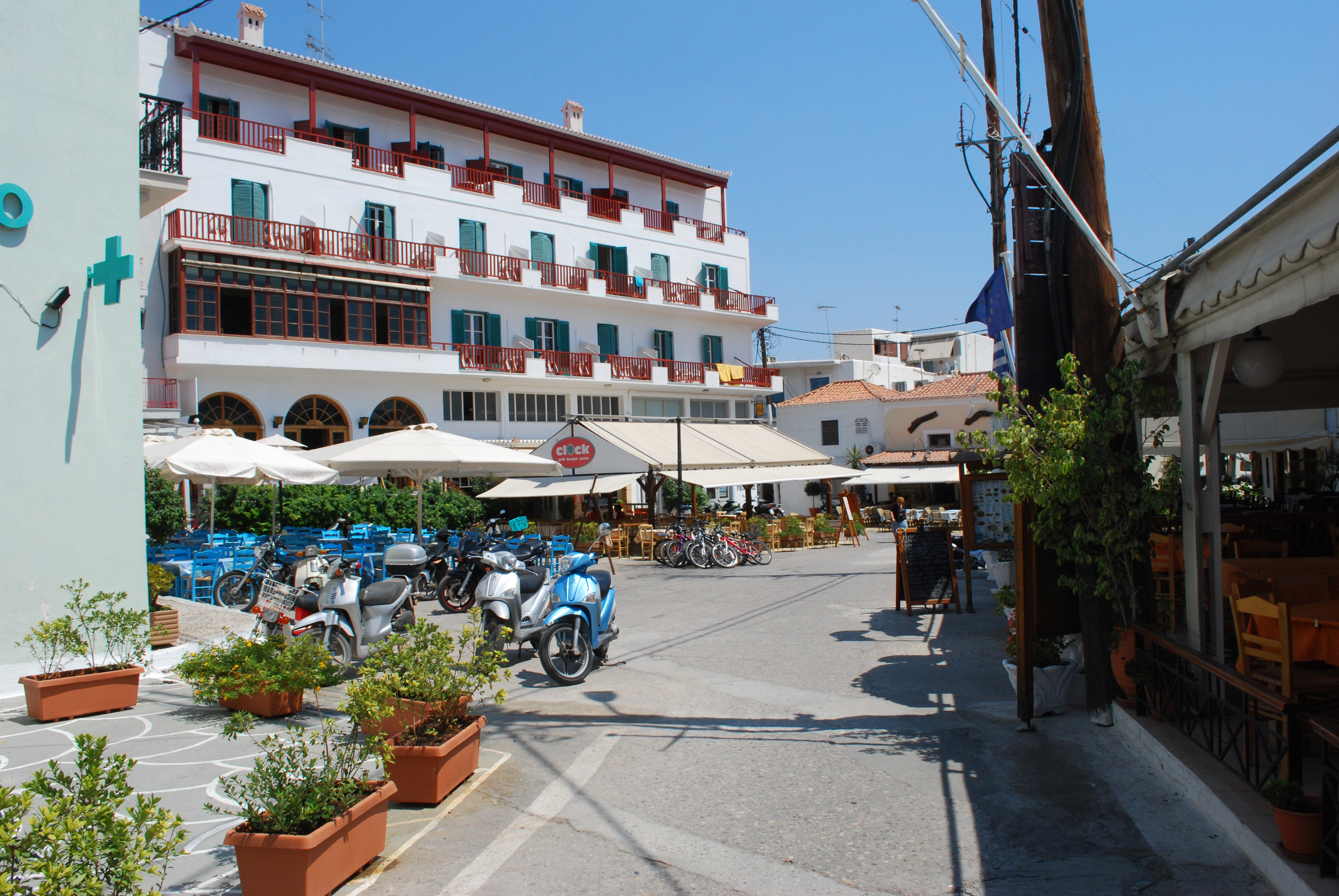 Spetses, street view.